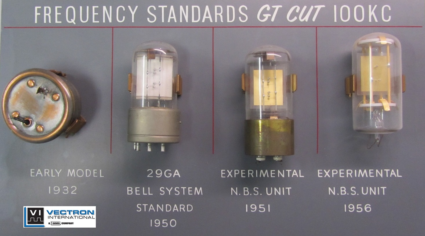 A collection of early quartz crystal frequency standard units used in crystal oscillators, produced by Bell Labs/AT&T/Vectron International. The crystals are visible as transparent rectangular flat plates within the glass bulbs, with rectangular metal electrodes plated on each side